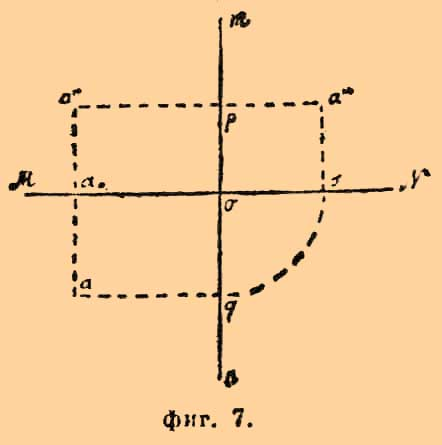 Illustration from Brockhaus and Efron Encyclopedic Dictionary (1890—1907)